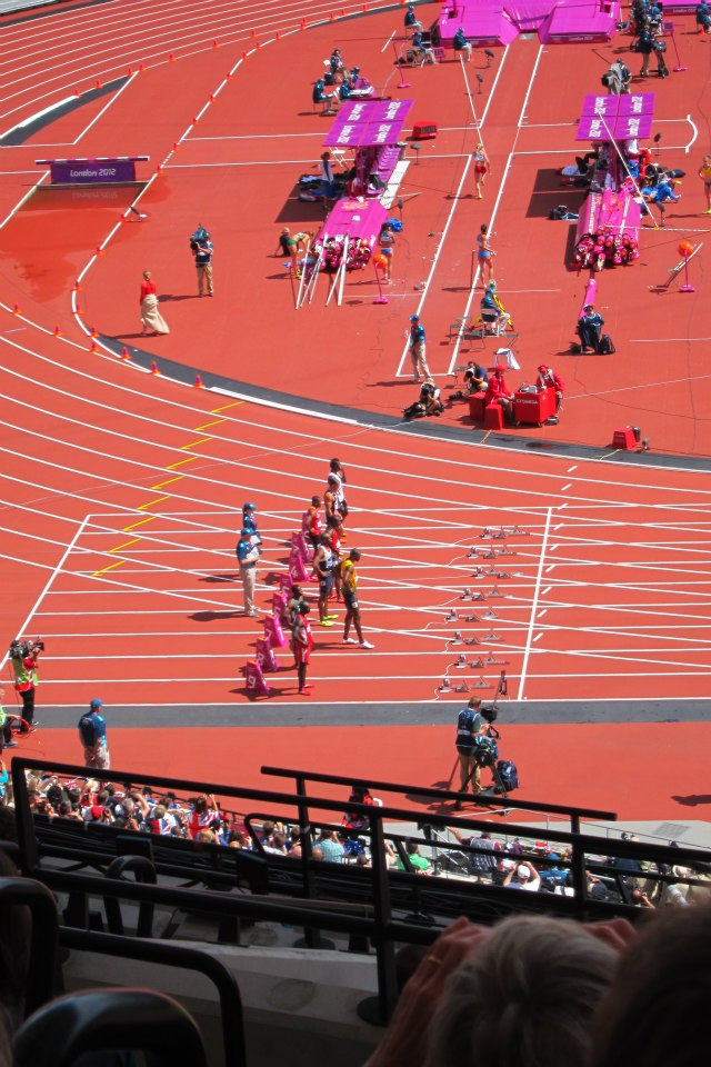 Athletics at the 2012 Summer Olympics – Men's 100 metres, qualification heat 4 1 6 Usain Bolt Jamaica 0.178 10.08 Q 2 4 Daniel Bailey Antigua and Barbuda 0.162 10.12 Q 3 5 James Dasaolu Great Britain 0.174 10.13 Q 4 2 Amr Ibrahim Mostafa Seoud Egypt 0.164 10.22 5 3 Jason Rogers Saint Kitts and Nevis 0.177 10.30 6 7 Ohgo-Oghene Egwero Nigeria 0.174 10.38 7 1 Holder da Silva Guinea-Bissau 0.182 10.71 N/A 8 Idrissa Adam Cameroon 0.206 N/A DNF